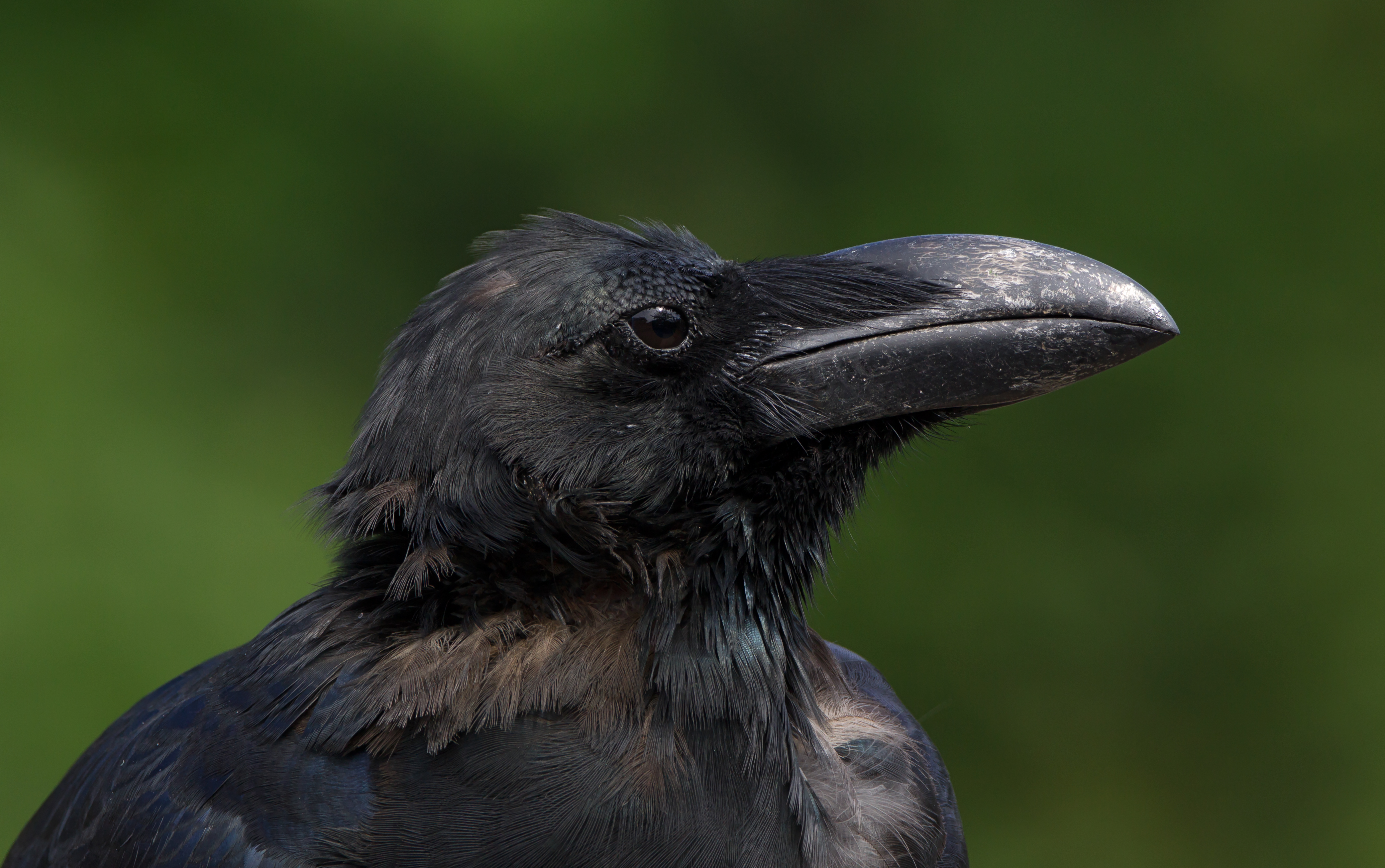 Jungle crow (Close-up of the head area), Tennōji Park, Osaka.